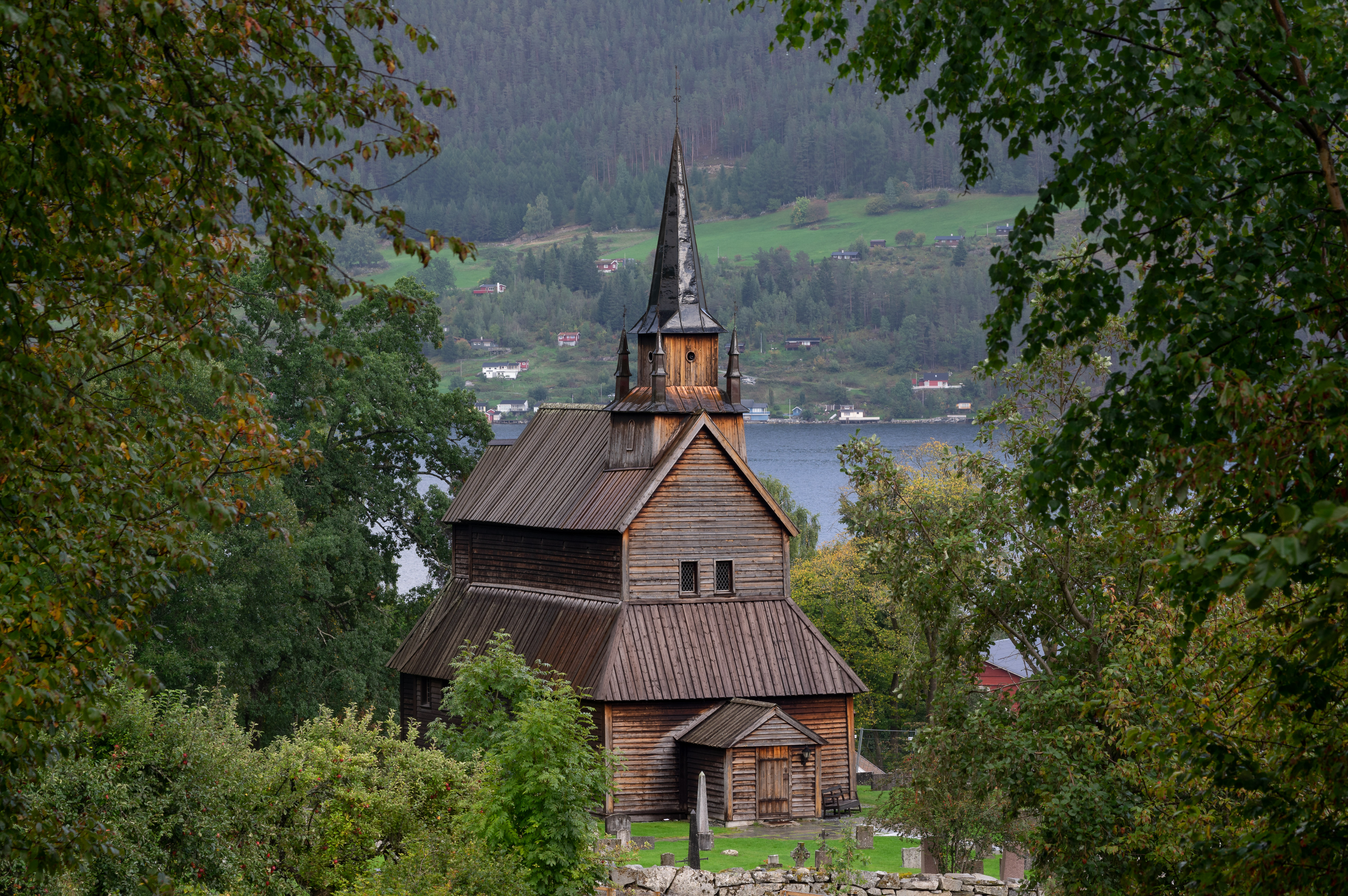 Kaupanger stave church. This is a reshoot of File:Kaupanger stavkyrkje 2018.jpg and File:Kaupanger stavkyrkje 2018 take 2.jpg. I thought I would get some more autumn leaves and improved light. I may give it another shot in some days.